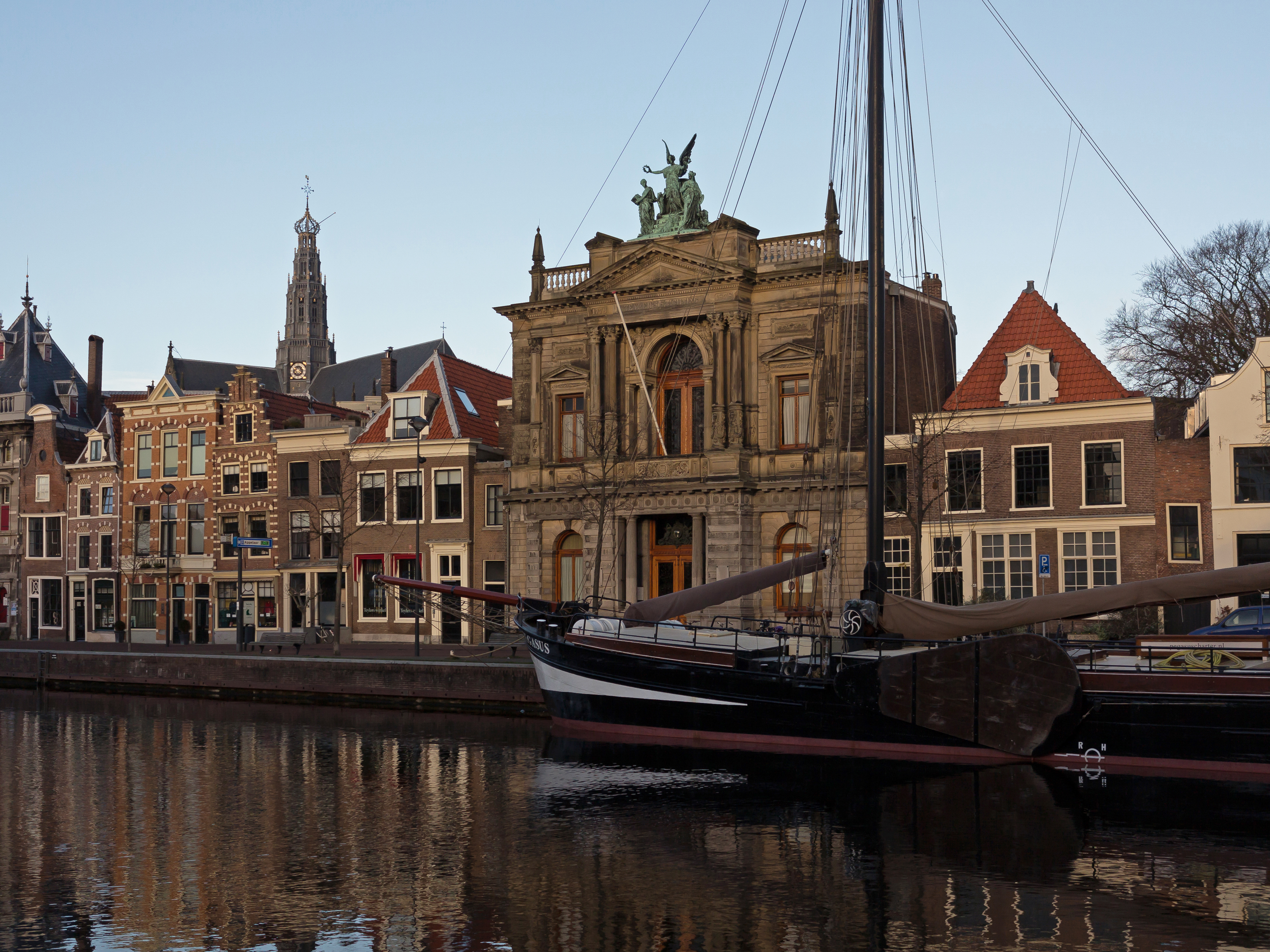 Haarlem, museum (het Teylermuseum) and church (de Sint Bavokerk) from de Korte Spaarne